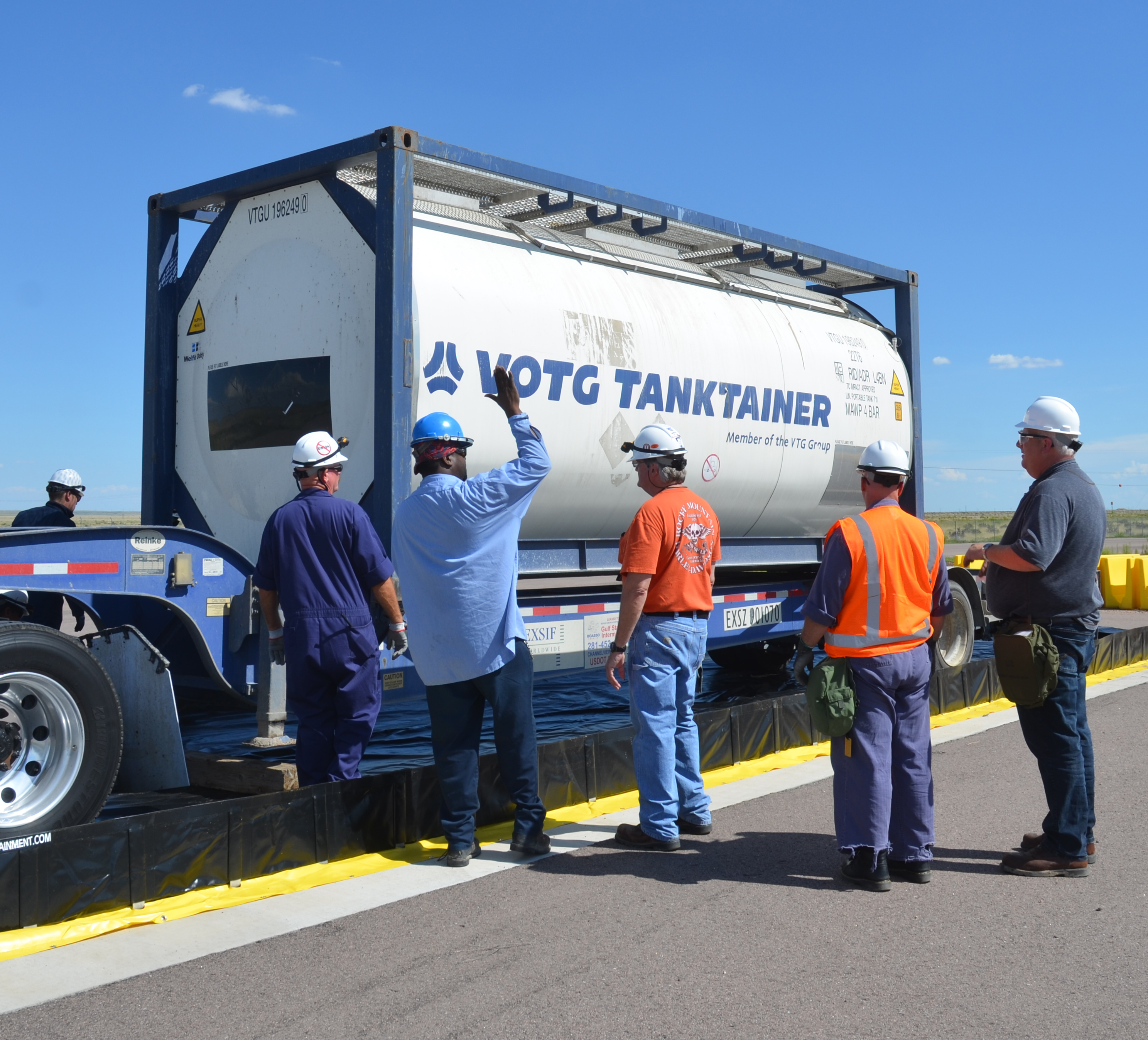 Thiodiglycol (TDG) arrived at the Pueblo Chemical Agent-Destruction Pilot Plant last month. TDG is the primary byproduct that will be created during agent hydrolysis. This shipment will be used to test the efficacy of processes in the Biotreatment Area.